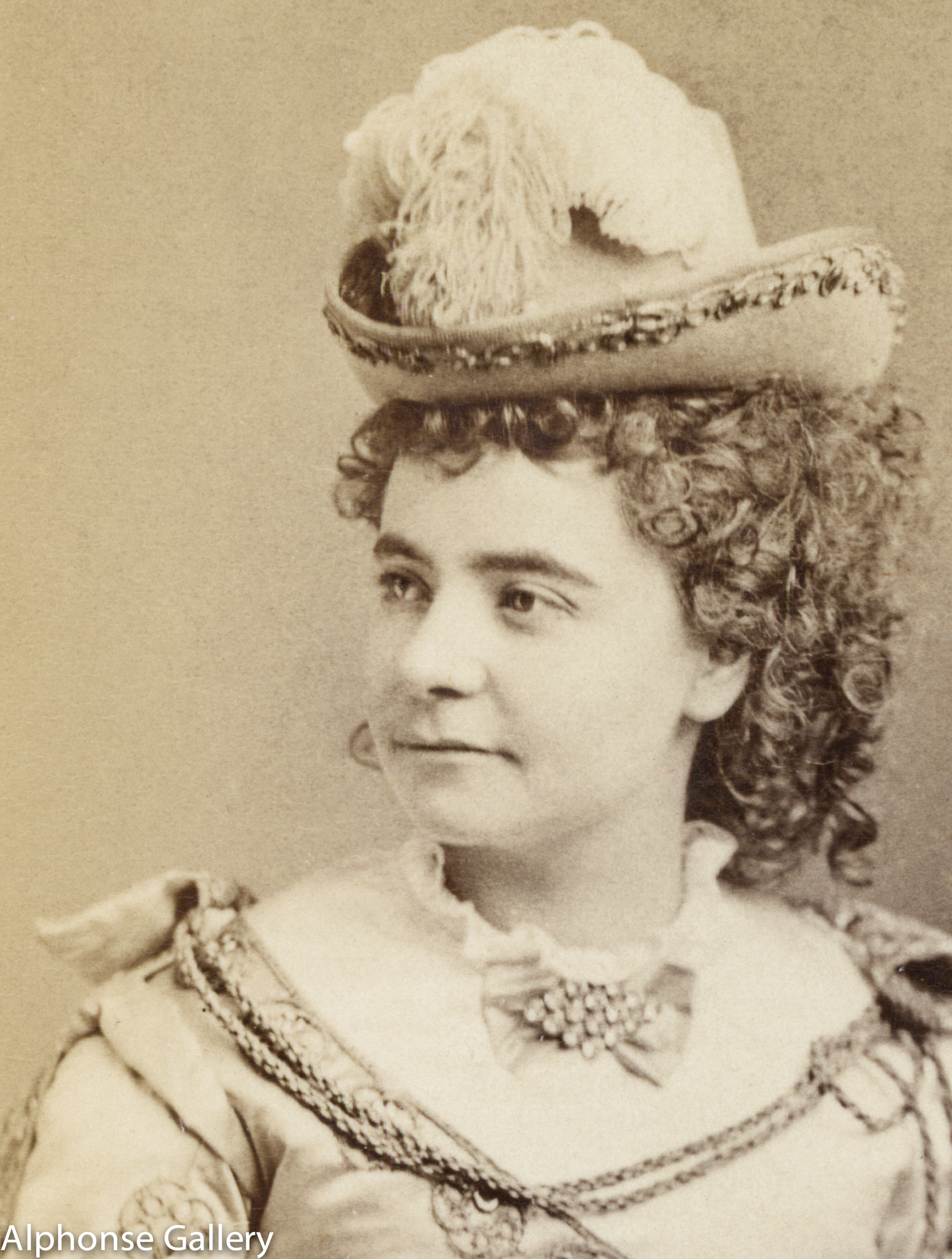 CDV of Rose Hersee by Benjamin Gurney at 872 Broadway, NYC c 1875